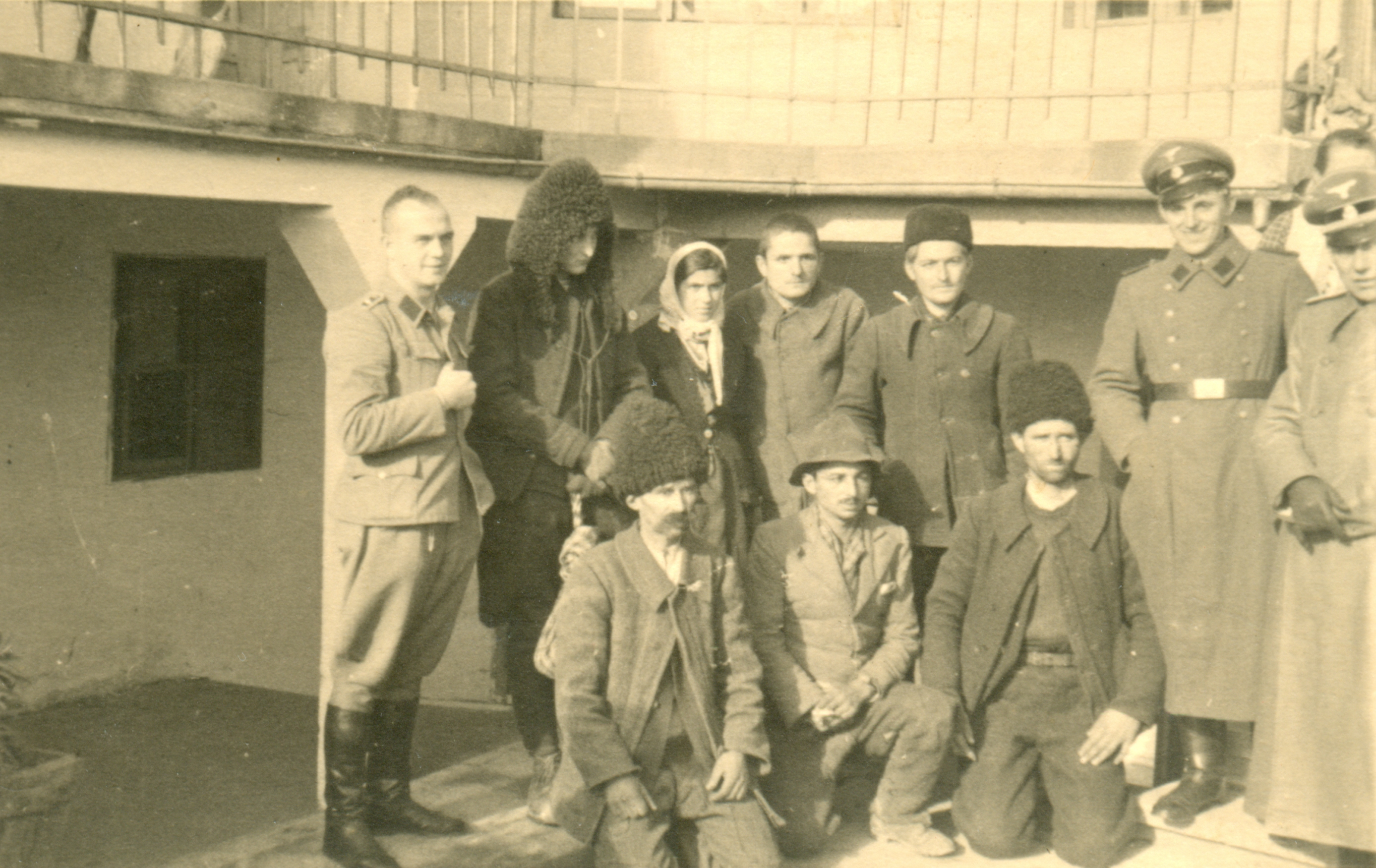 The Gestapo in Negotin Srpski (latinica): Gestapo u Negotinu